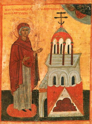 Deposition of the Robe of Virgin Mary